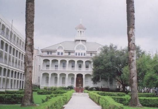 Greenville Hall, Loyola University New Orleans. Listed on the National Register of Historic Places. Built 1889.